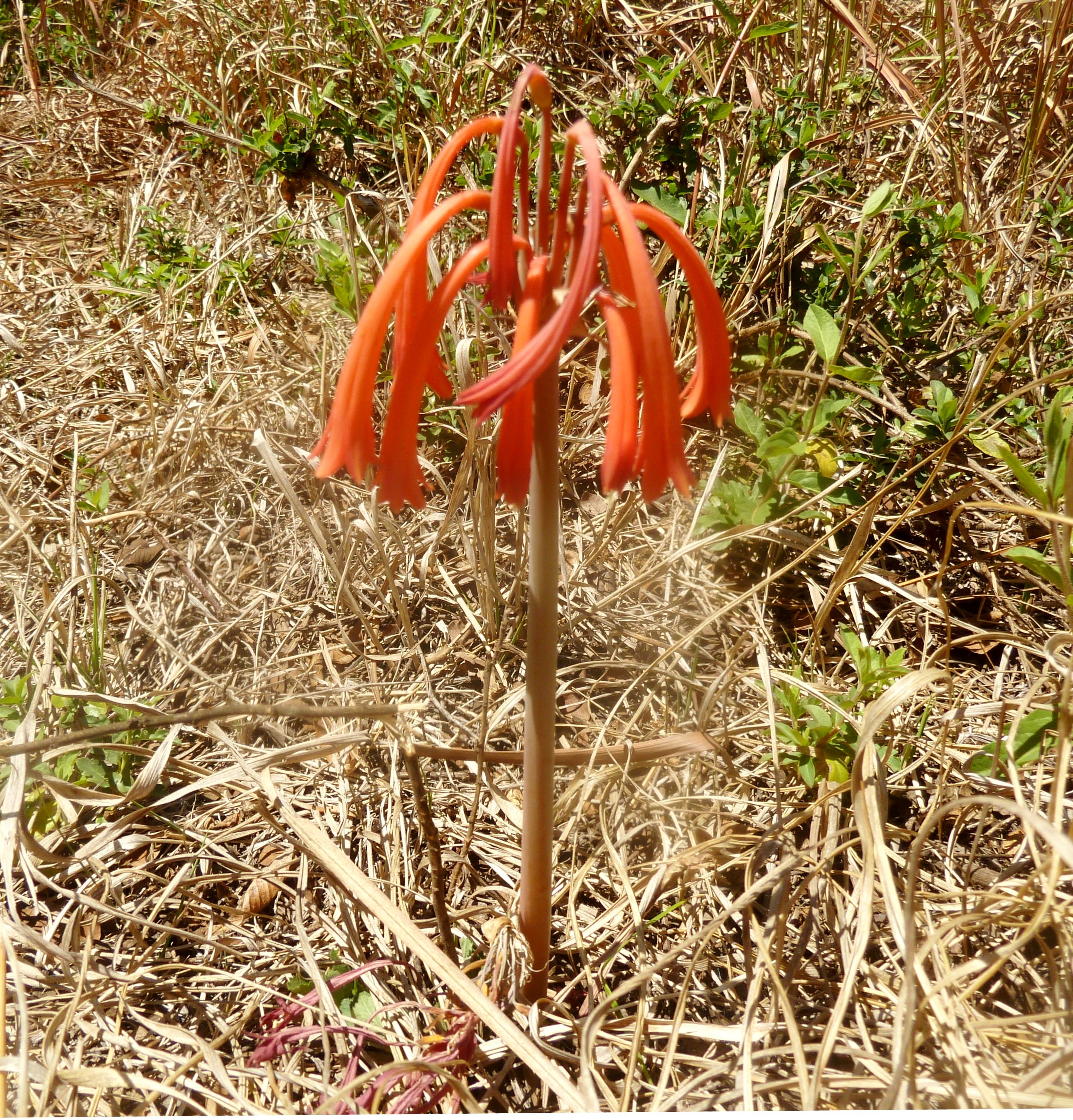 Flowering Pempempie in Rietvlei Nature Reserve